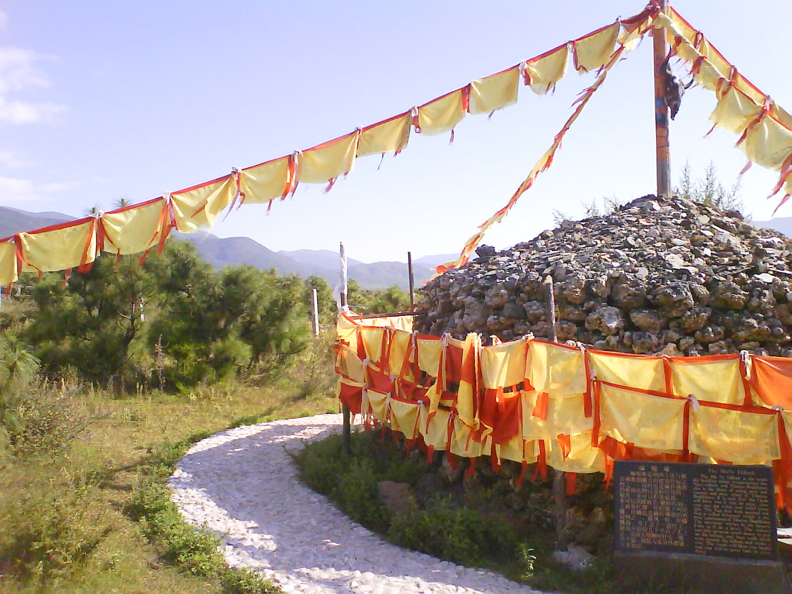 Dongba ovoo ("MaNi Hillock", 《嘛呢堆》) near Lijiang, Yunnan province, China. Compromises Naxi culture and Tibetan buddhism. If you pray, gods will bless you, you will relax and relief from sick. The red flag is called streamer, this is a tibetan buddhism pray instrument